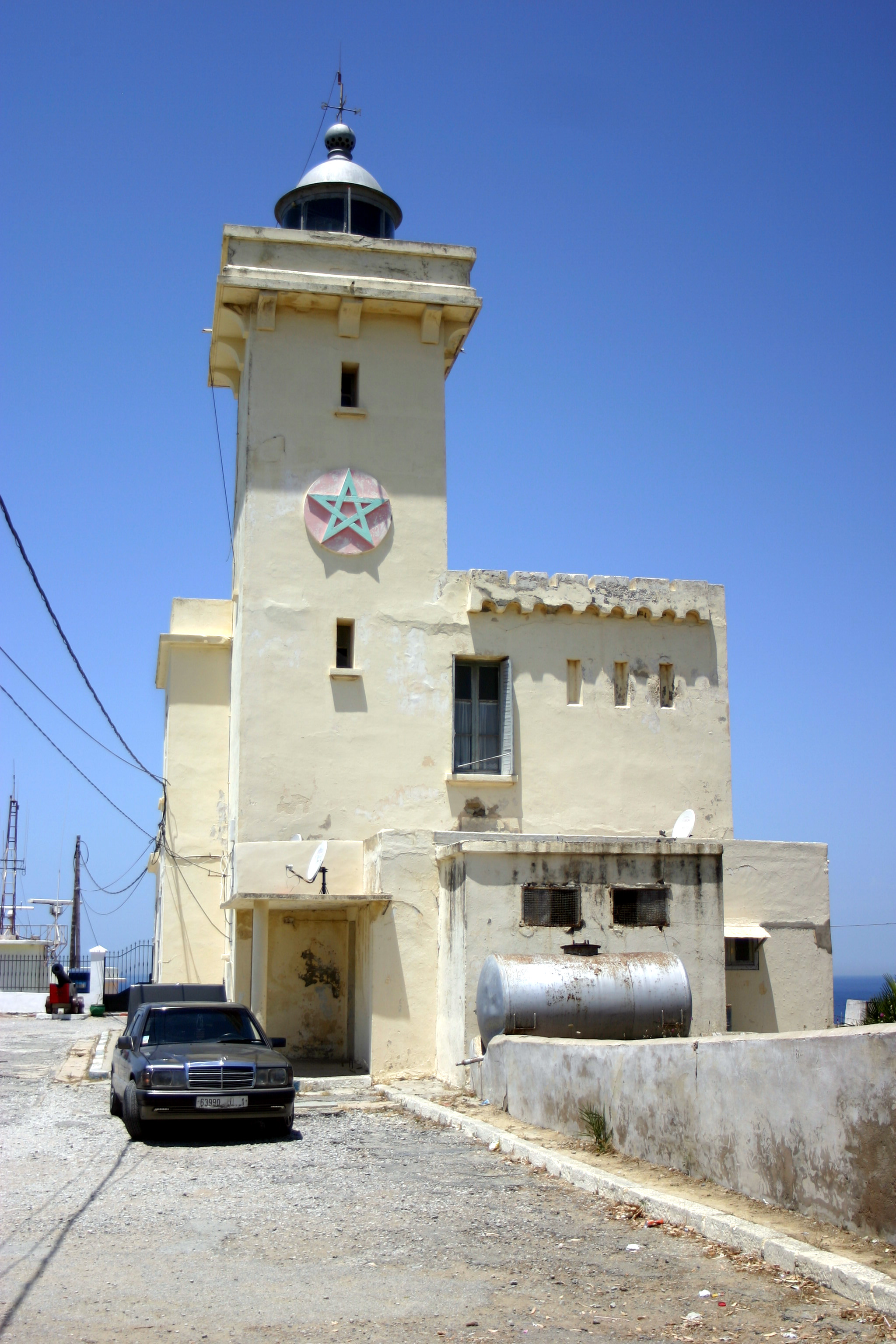 This is a manned lighthouse. The keeper was bringing vegetables from the trunk of his Mercedes into the lighthouse kitchen